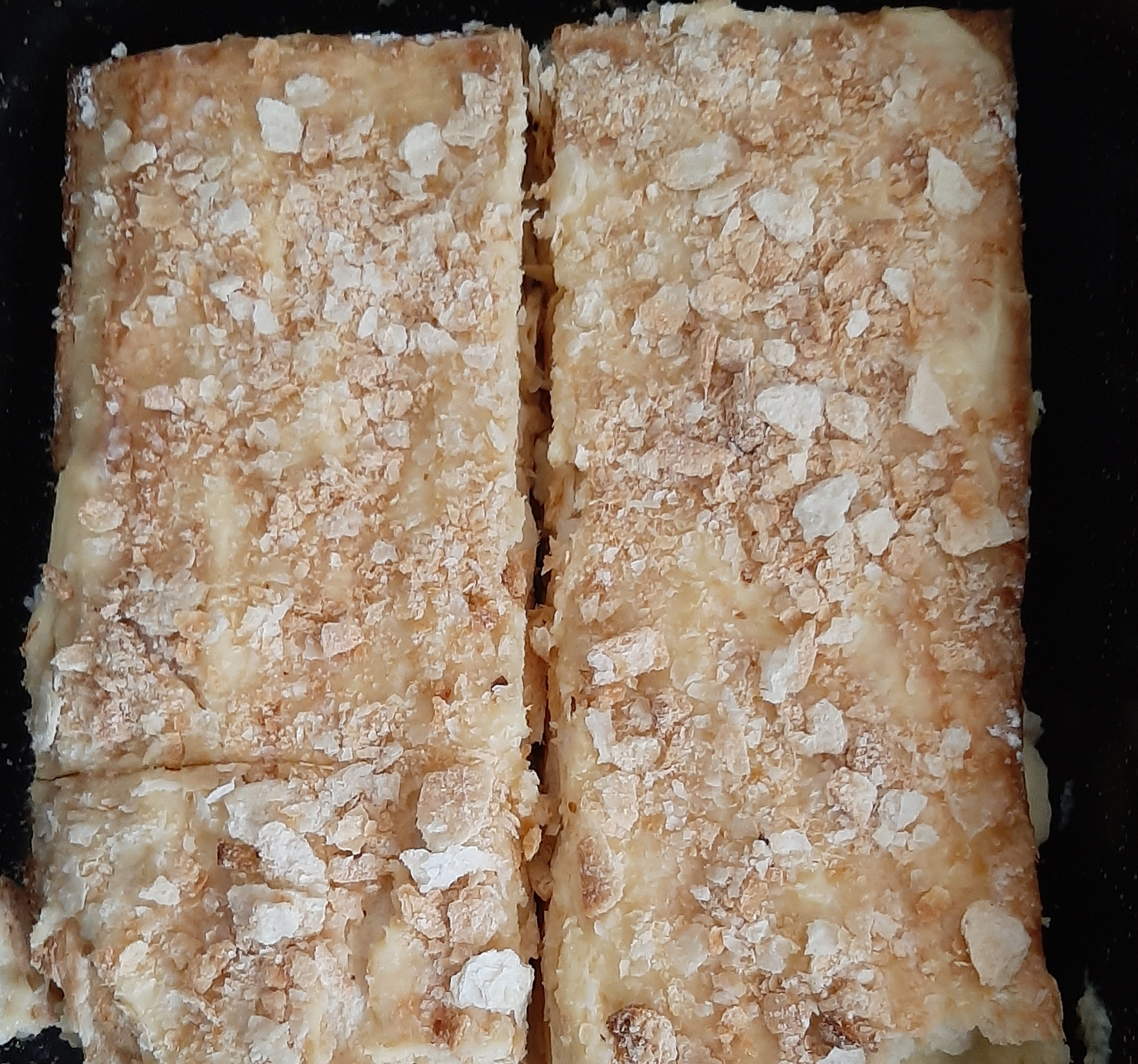 Creme schnitte romanian version